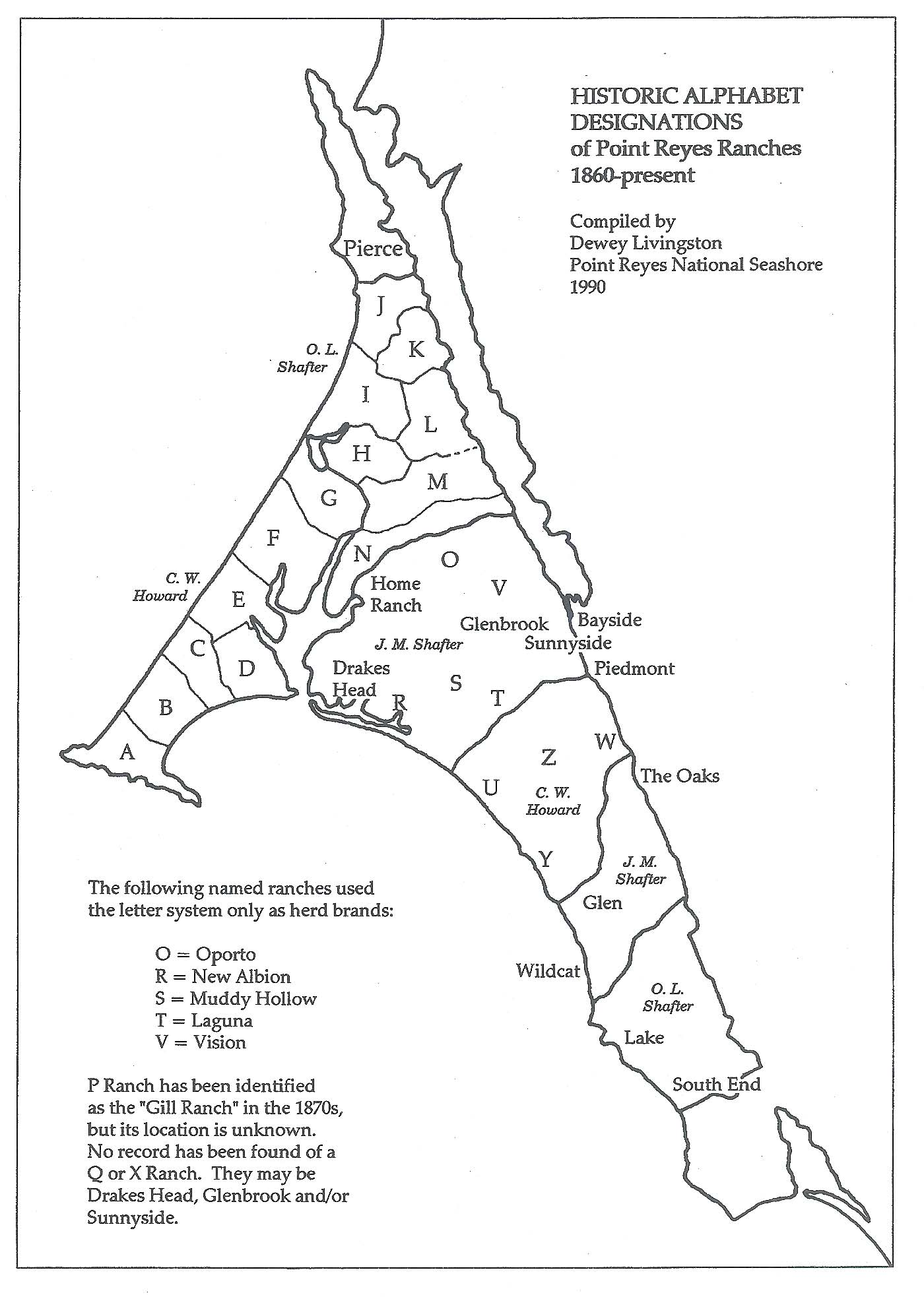 Map showing the historic alphabet designations of Point Reyes Ranches, 1860–1990